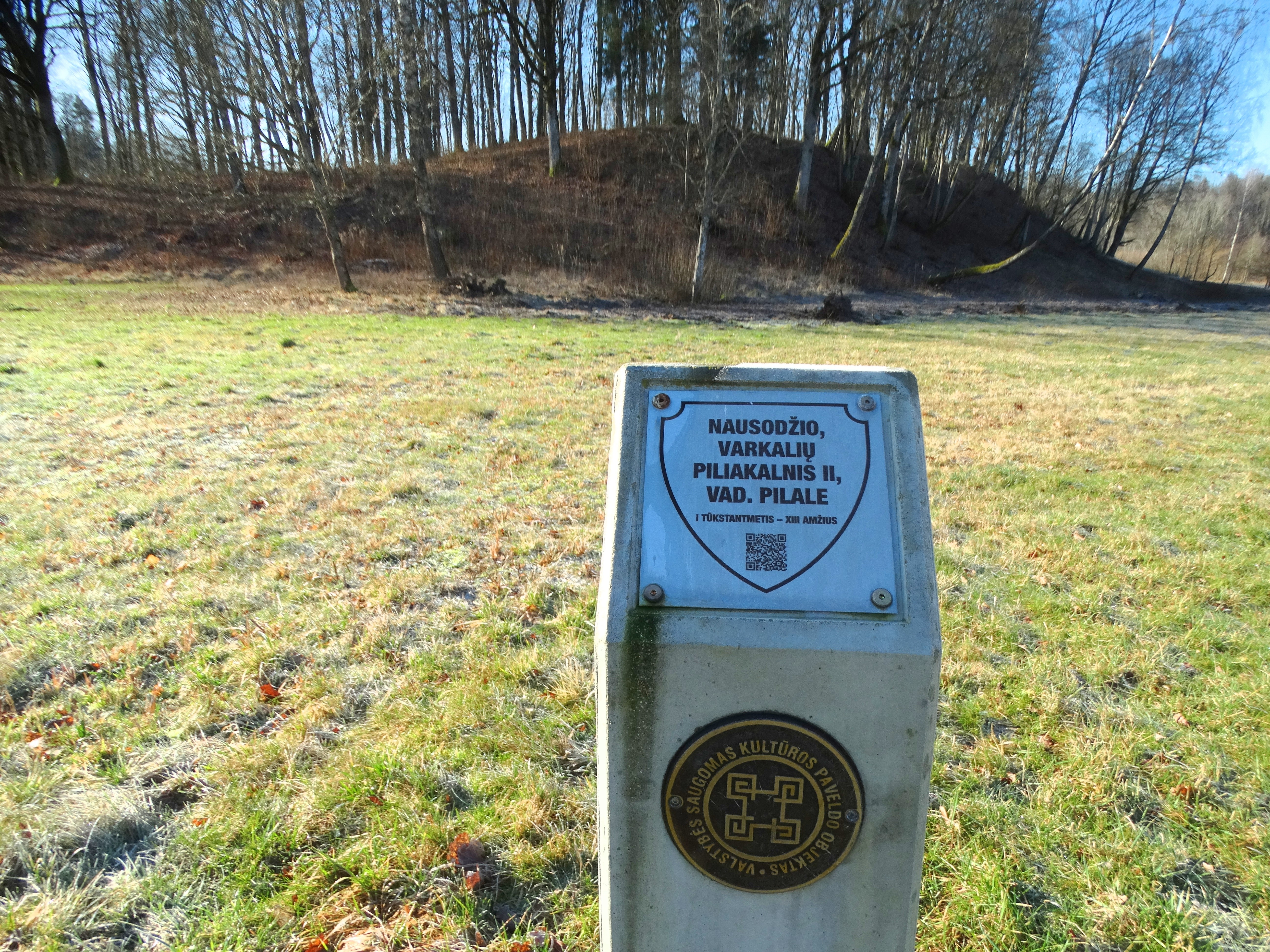 Nausodis II hillfort (Varkaliai hillforts), Plungė district, Lithuania